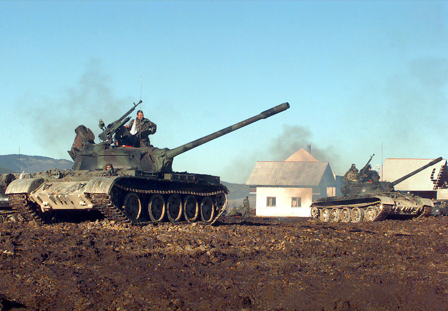 Two Croatian Defense Council (HVO) Army T-55 Main Battle Tanks pull into firing position during a three day exercise held at the Barbara Range in Glamoc, Bosnia and Herzegovina. The HVO Army was granted the use of the range for first time in 18 months to train their troops on the proper use of the tank, its 100mm main gun and 12.7mm machine gun.